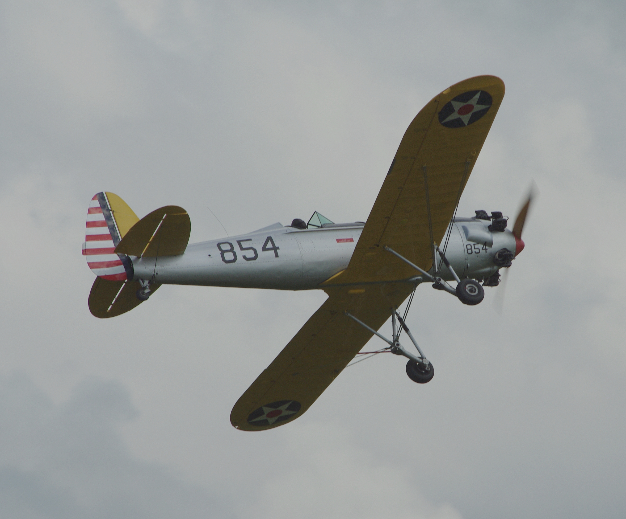 Ryan PT-22 G-BTBH, built in 1942 flying at Old Warden's Summer Show 2009